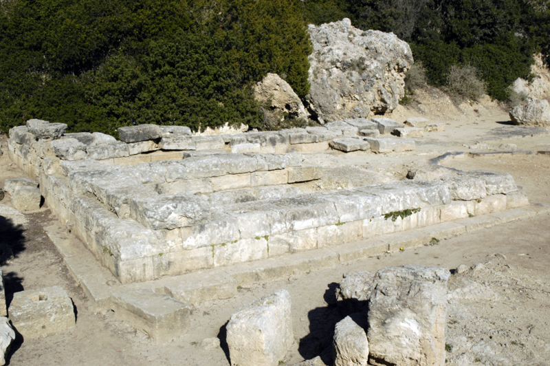 J. Matthew Harrington, personal digital image, November 16, 2006